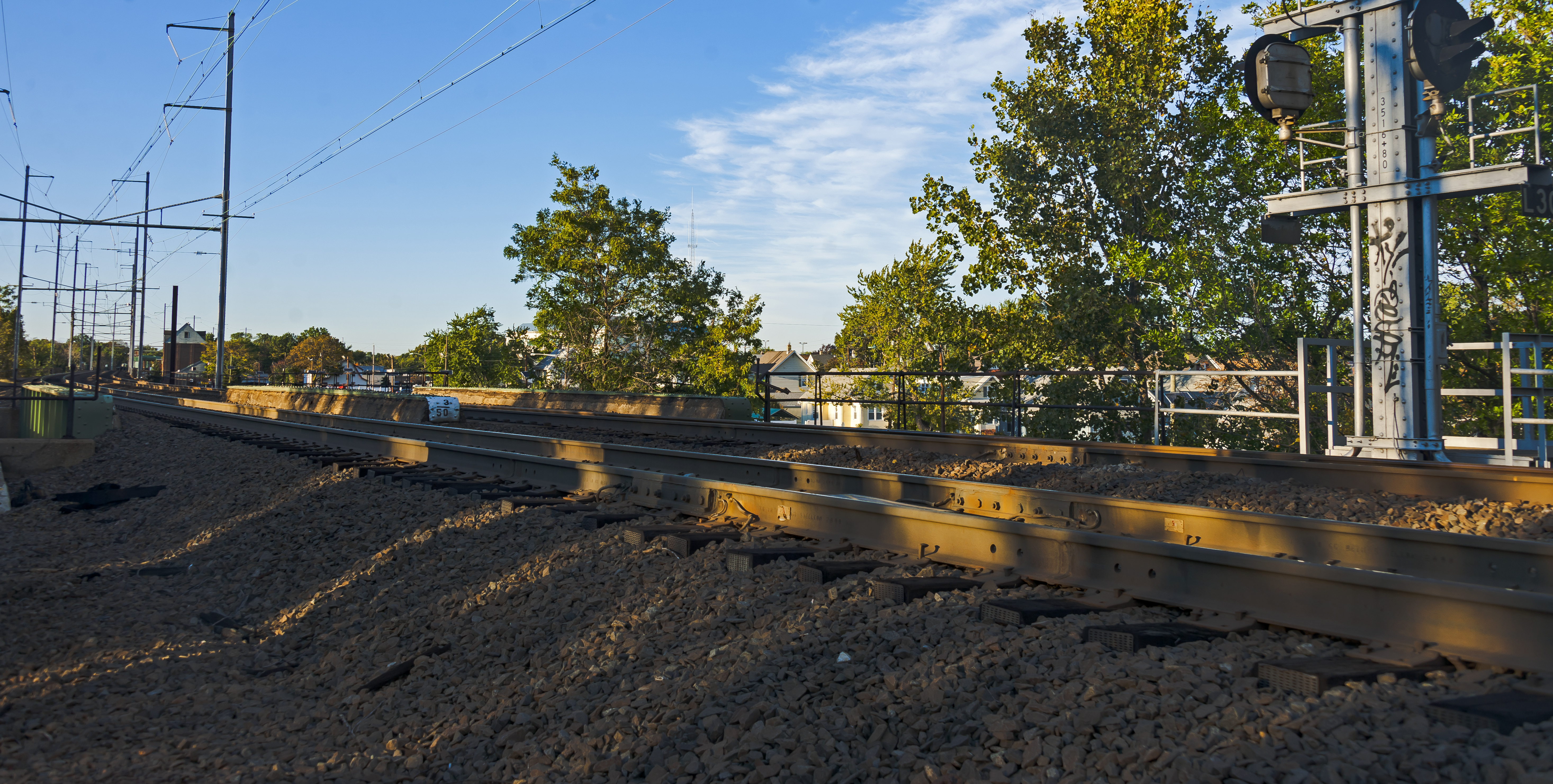 Site of train wreck in Woodbridge, NJ, USA, on February 6, 1951, along today's NJ Transit North Jersey Coast Line. A commuter train engineer went into a temporary diversion at well over the posted speed limit, derailing the train and killing 85. It is the deadliest rail accident in the state's history, and the third deadliest overall in U.S. history.